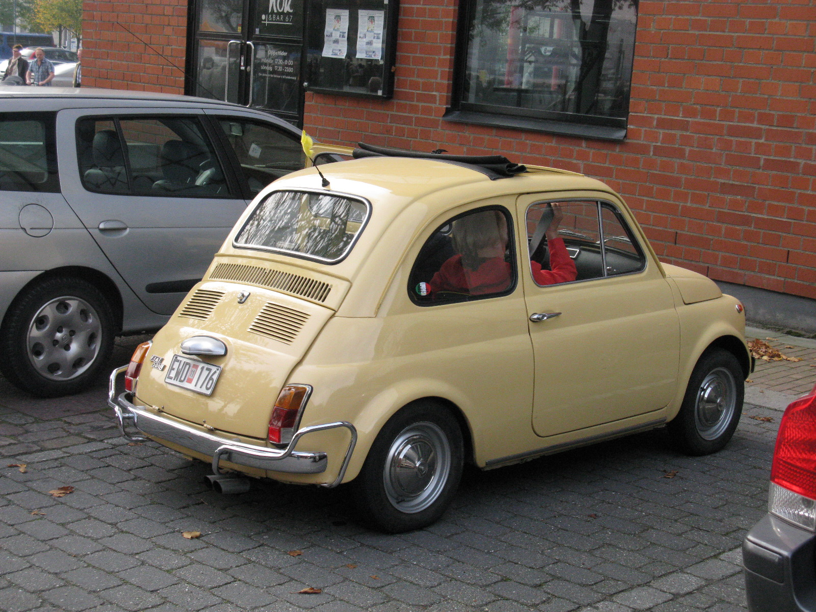 Fiat 500